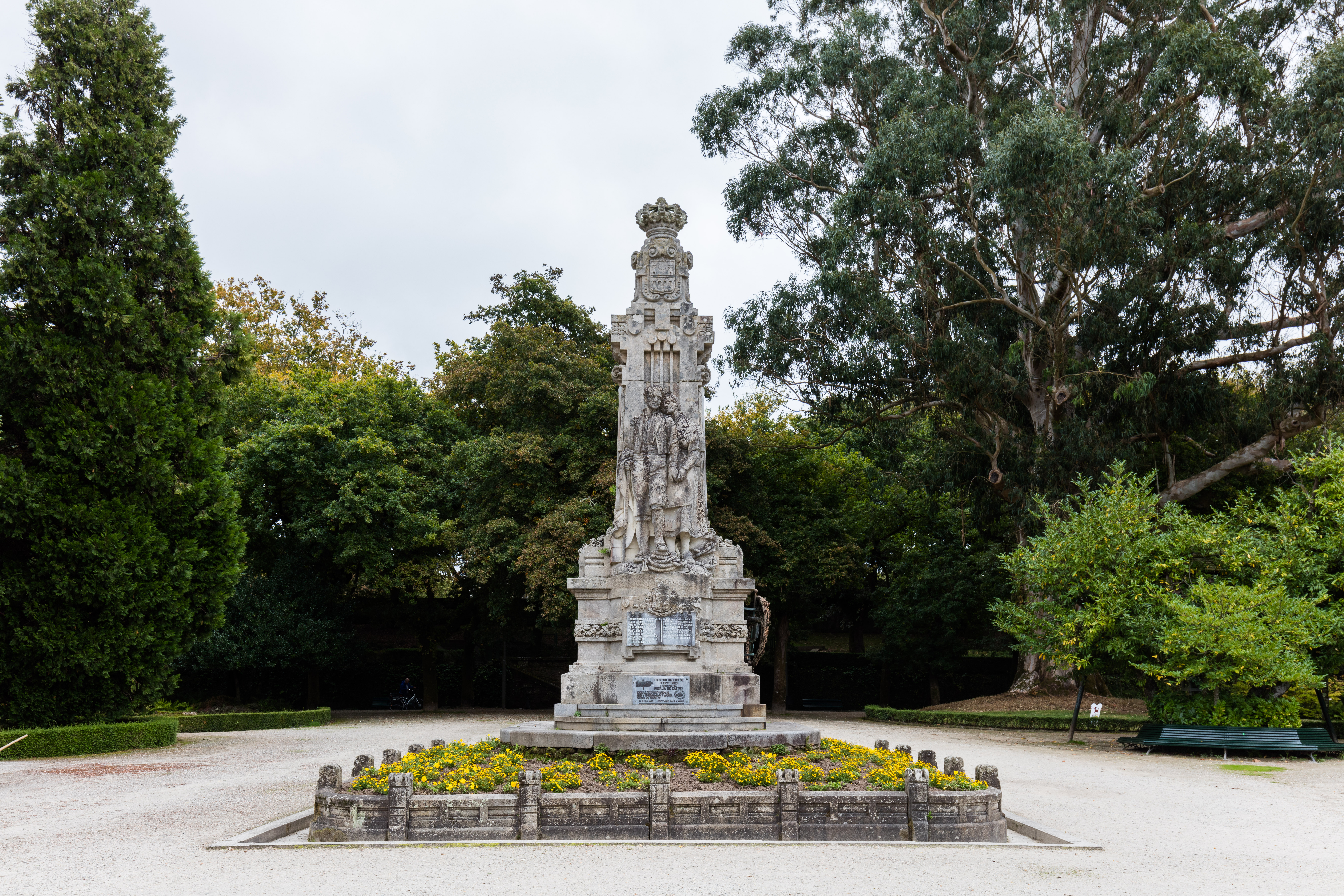 Alameda Park, Santiago de Compostela, Spain